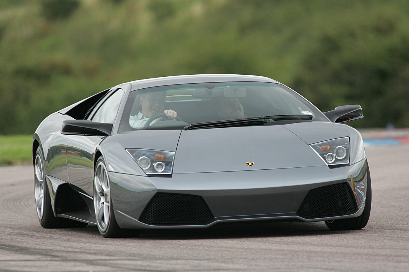 A grey Murcielago being taken around the track.